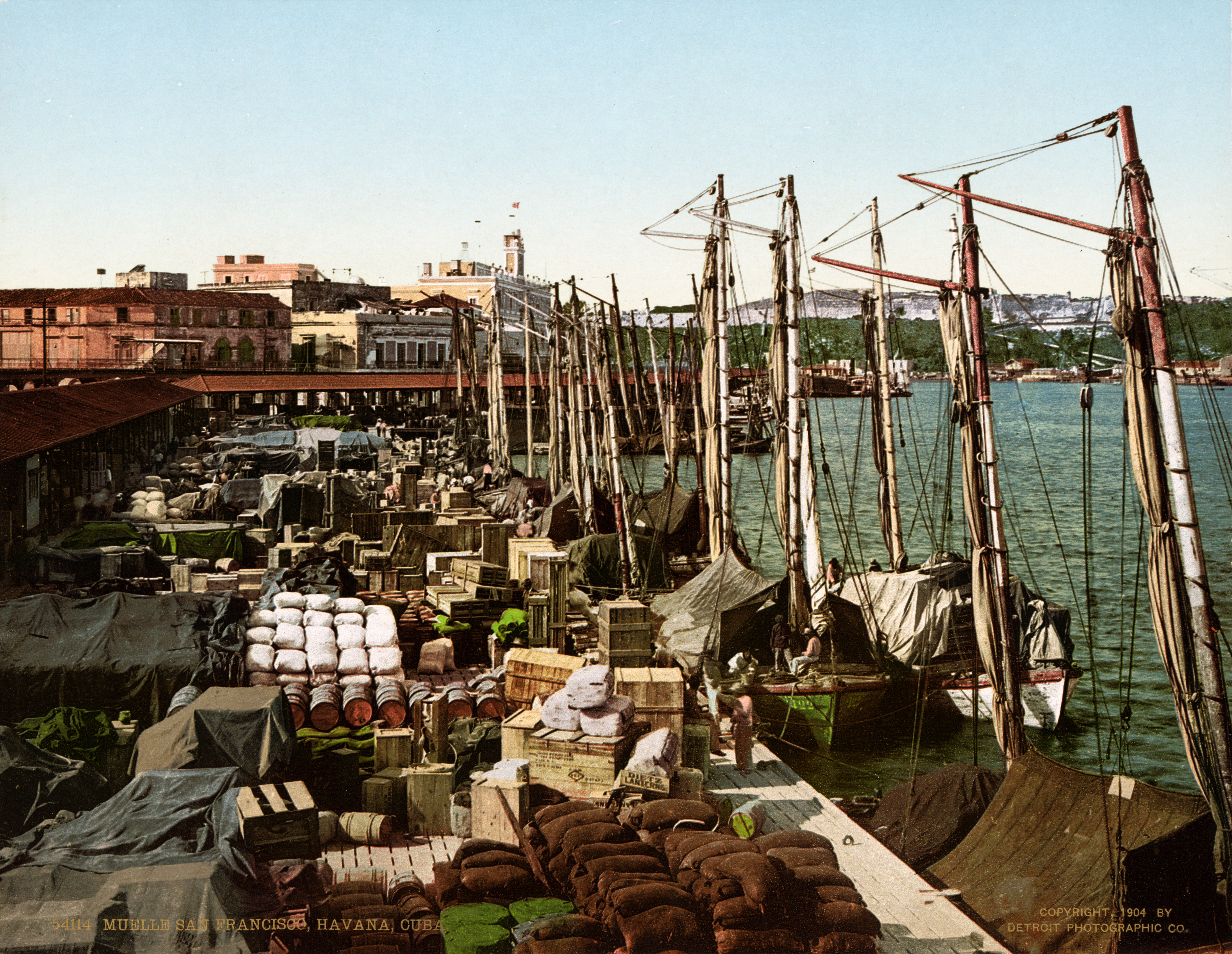 Photochrom print of Muelle San Francisco, Havana, Cuba.